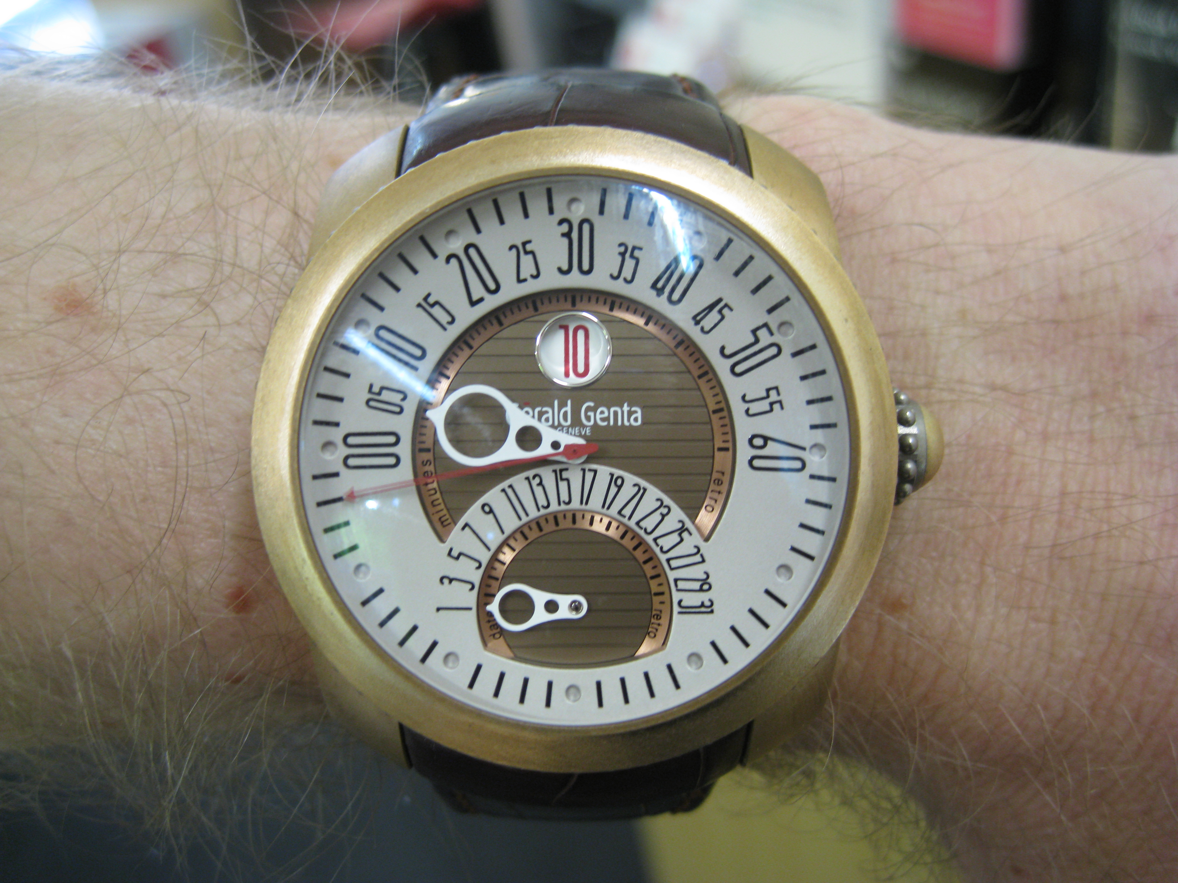 Gérald Genta watc